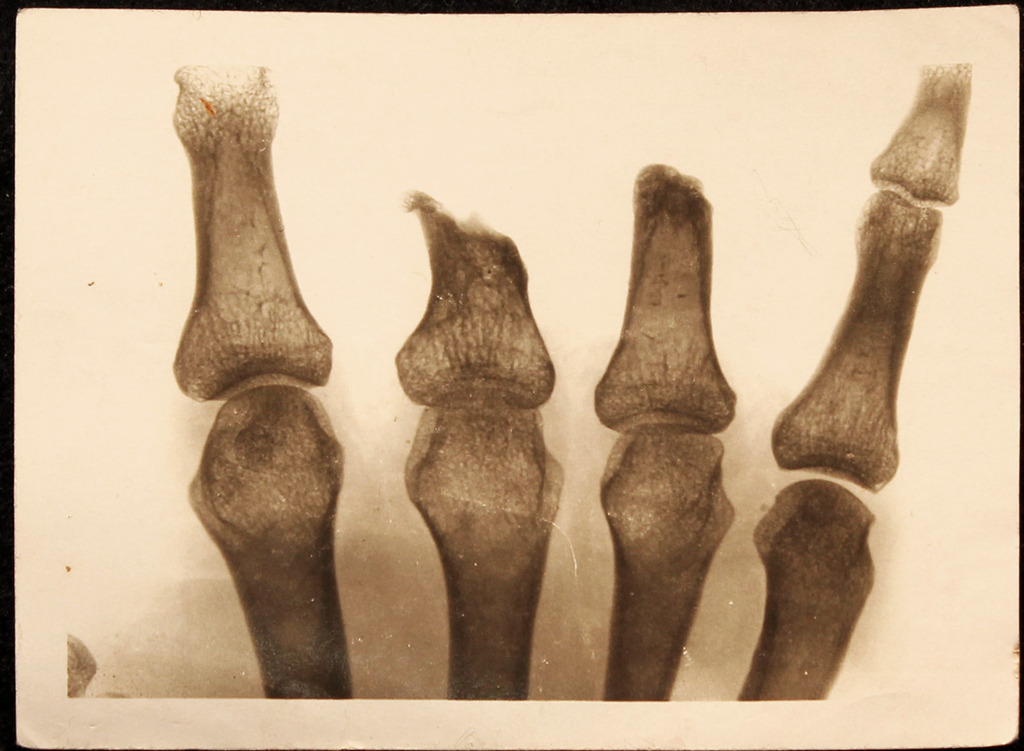 Pictures and postcards of Otto Seitz (1897-1971). Served as a reservist in 1916-17. After a war wound he had three fingers of his right hand amputated. After the war he lived in Nördlingen, however, was his former occupation as elektrotechnician was over and he was now working as a postman.